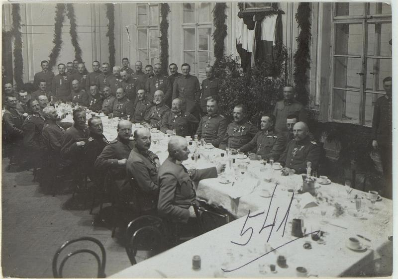 Brzeżany in 1916